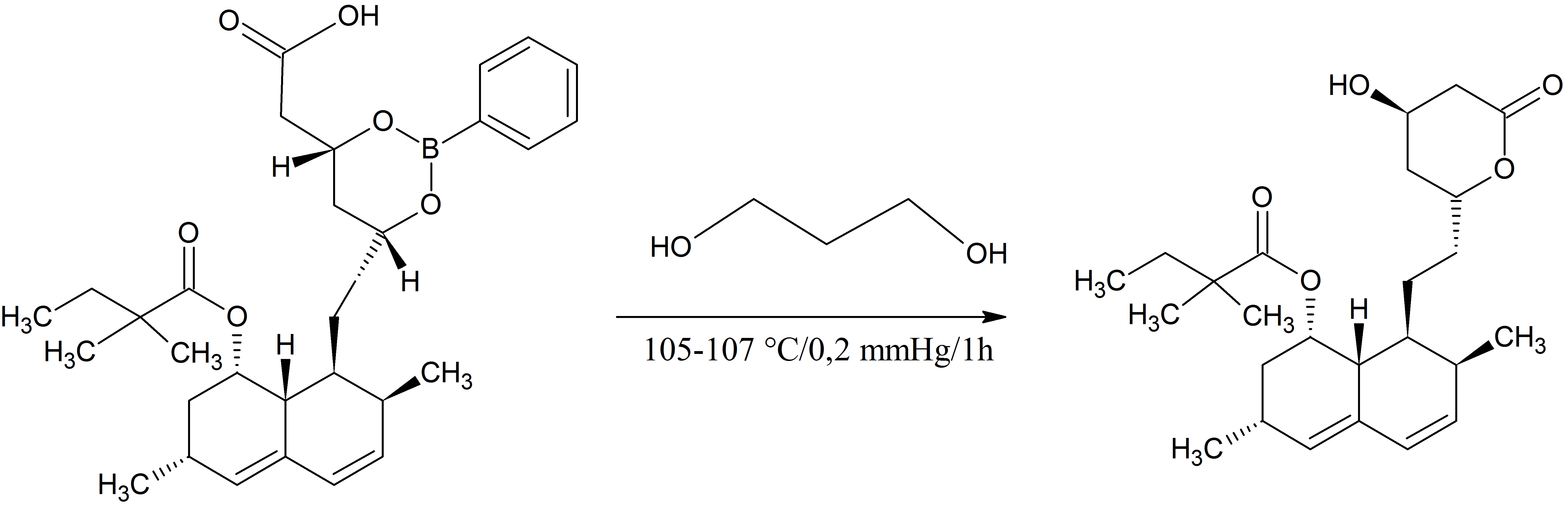 Route to manufacturing simvastatin by direct methylation of lovastatin based on Process for producing simvastatin